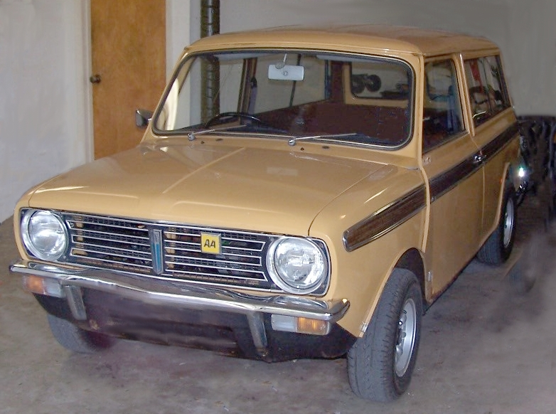 Photo by Michael Bruno of his 1976 Mini Clubman Estate. Image manipulated in GIMP to remove license plate and distracting clutter.